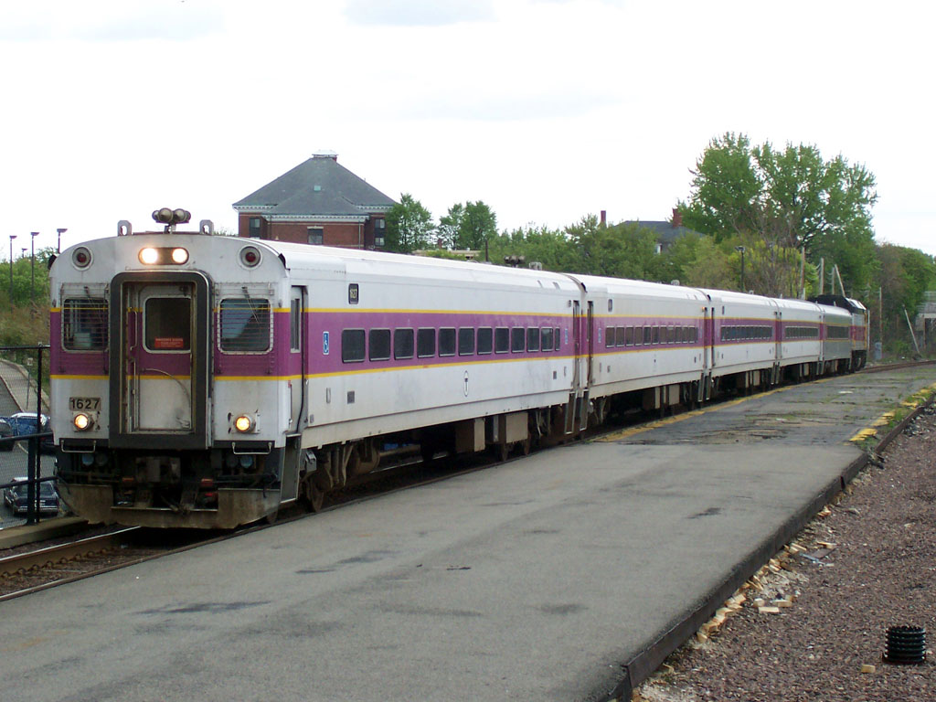 Cab car #1627 leads inbound MBTA train 172 into Central Square-Lynn past the 1914-built platforms in May 2006